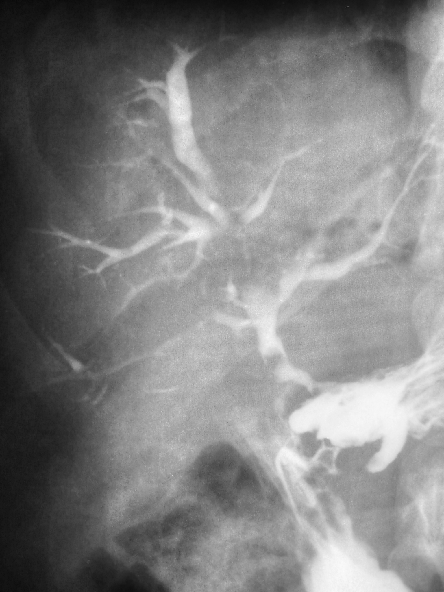 Barium examination showing duodenobiliary fistula and retrograde filling of biliary tree from bulbus. ICD-10 K83.3 ICD-9 576.4, MeSH D001658